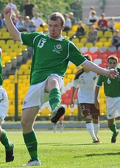 Liam Boyce in action for Northern Ireland national U19 team